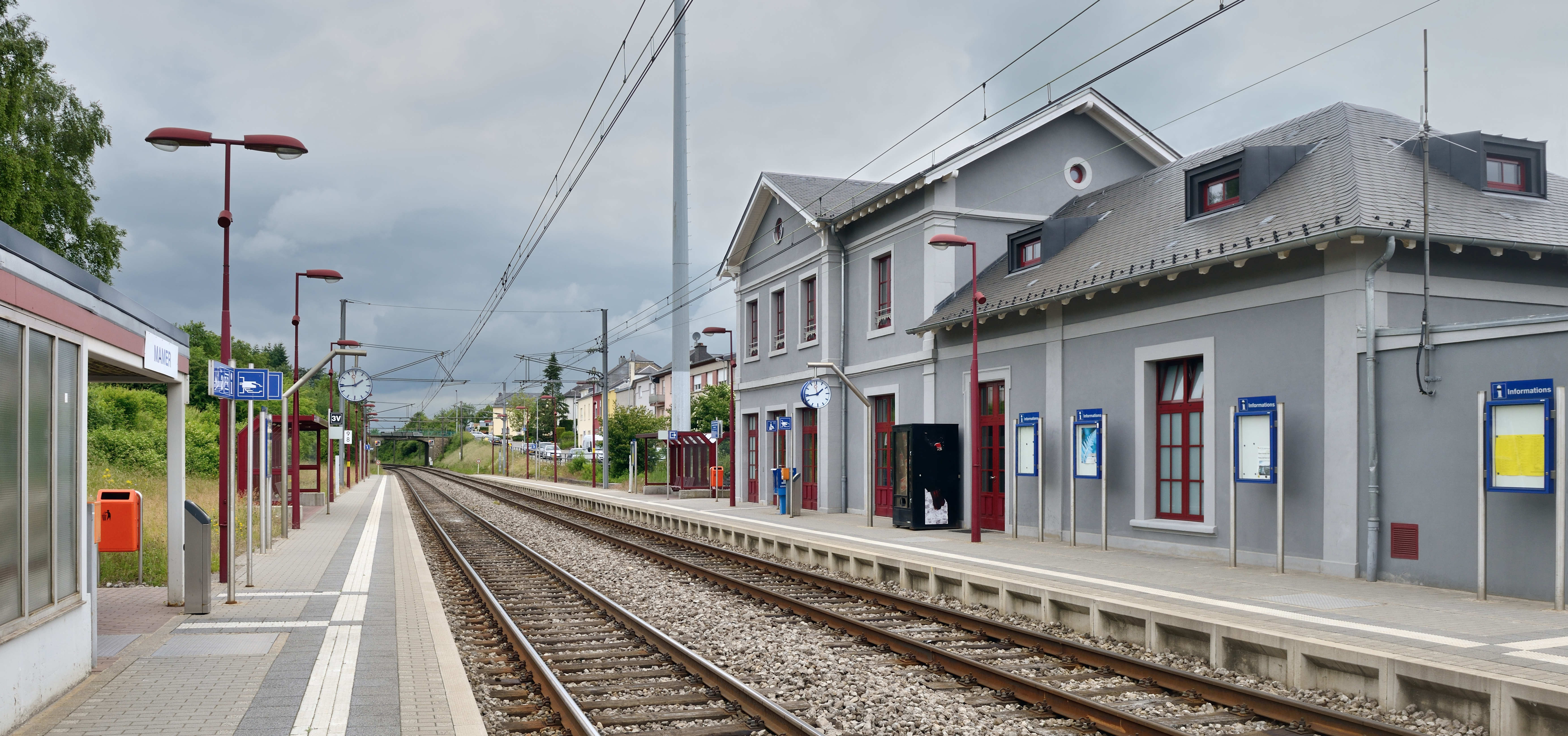 Railway station at Mamer, looking towards Capellen.